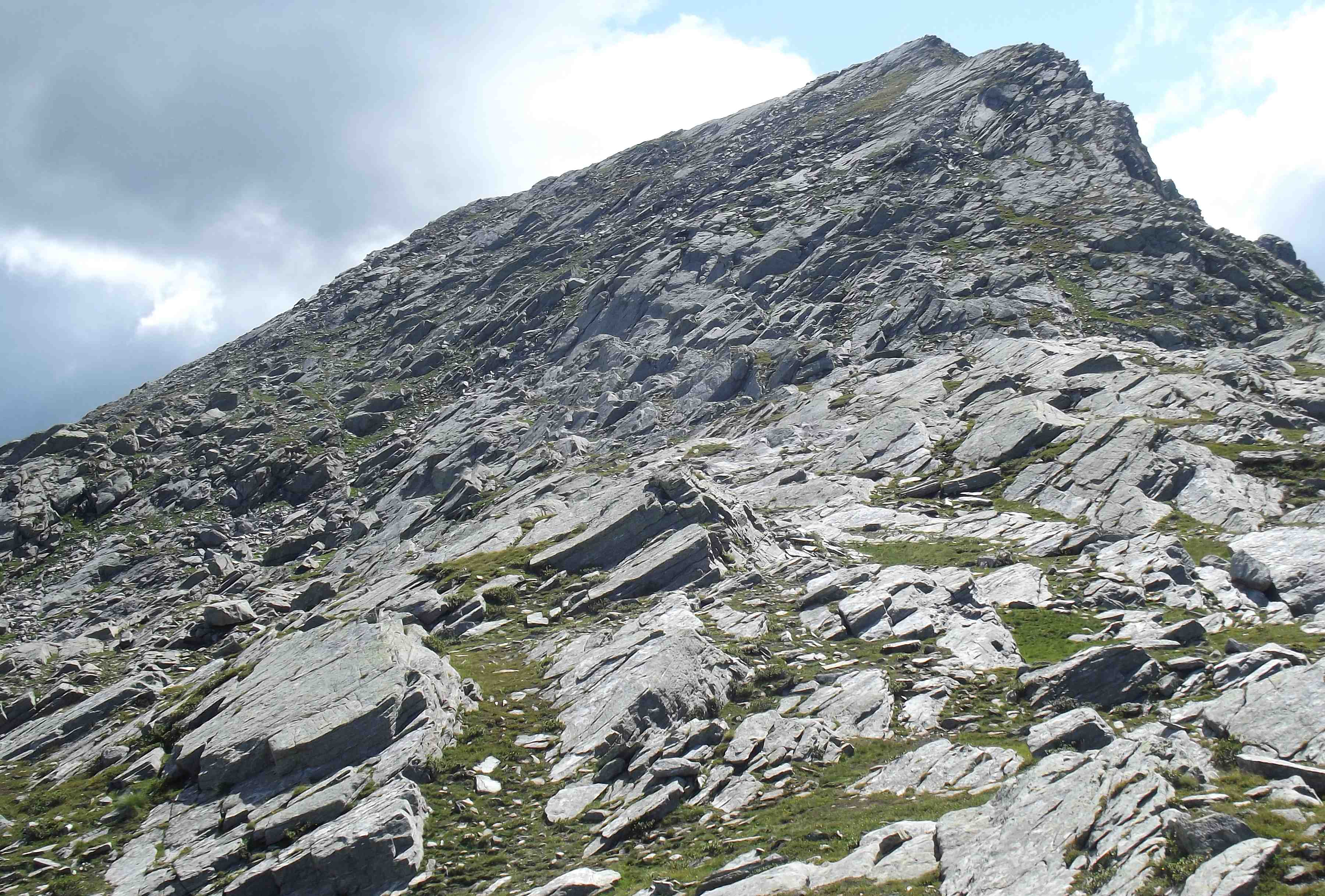 Punta Lazoney (Pennine Alps): NW slopes